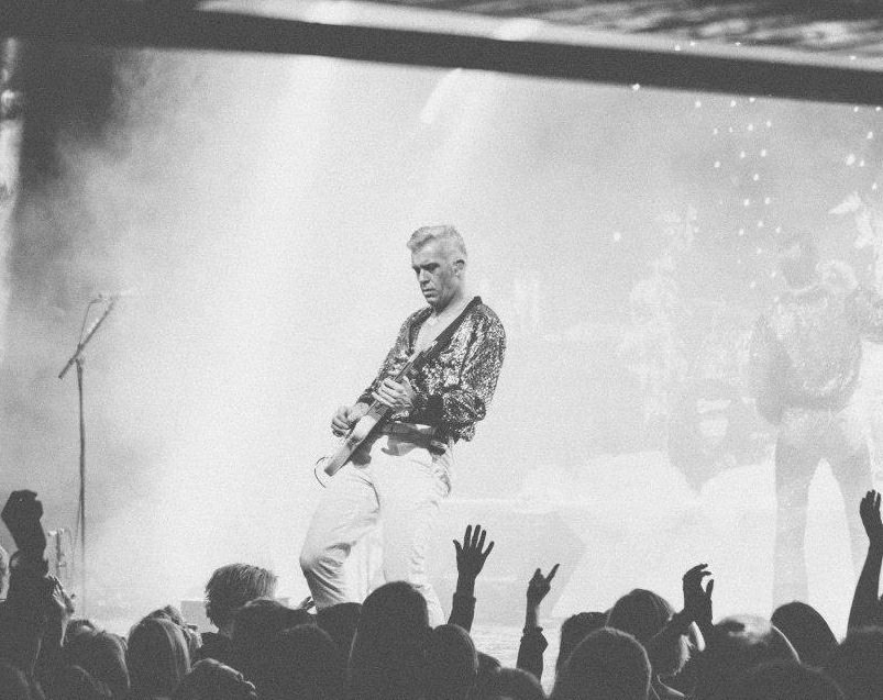 live image